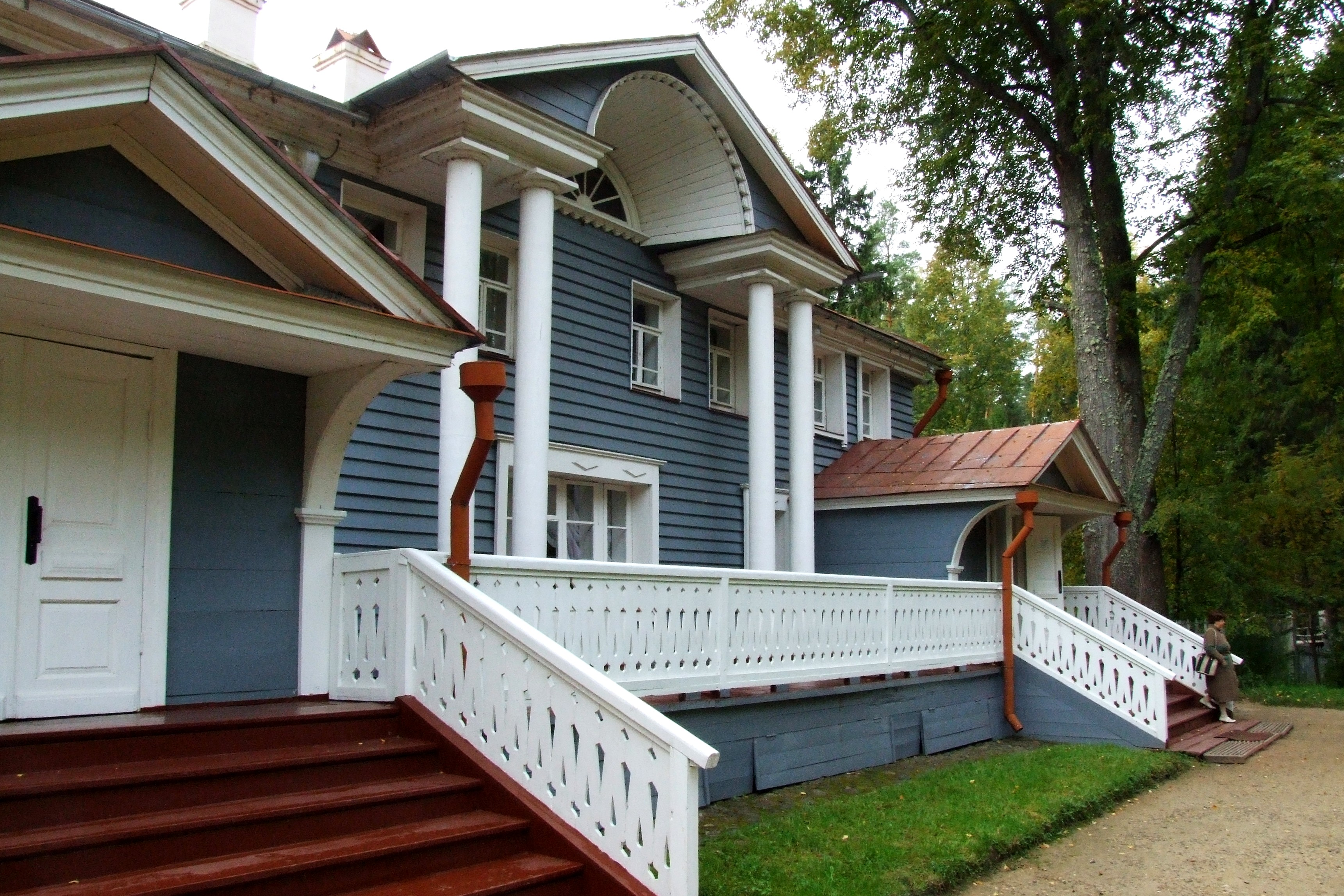 Alexander Ostrovskiy's house in Schelykovo (near Kostroma, Russia)